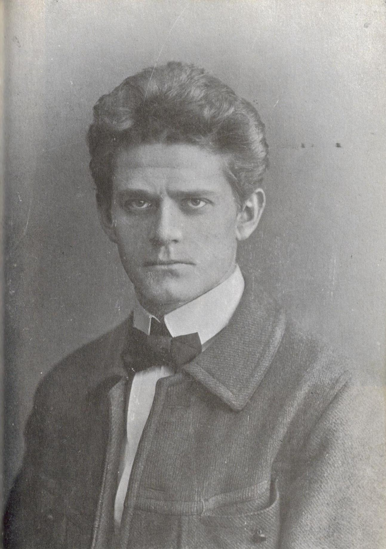 Friedrich Kayssler Date: 1898 Licensing This work is in the public domain in its country of origin and other countries and areas where the copyright term is the author's life plus 70 years or fewer. You must also include a United States public domain tag to indicate why this work is in the public domain in the United States. Note that a few countries have copyright terms longer than 70 years: Mexico has 100 years, Jamaica has 95 years, Colombia has 80 years, and Guatemala and Samoa have 75 years. This image may not be in the public domain in these countries, which moreover do not implement the rule of the shorter term. Côte d'Ivoire has a general copyright term of 99 years and Honduras has 75 years, but they do implement the rule of the shorter term. Copyright may extend on works created by French who died for France in World War II (more information), Russians who served in the Eastern Front of World War II (known as the Great Patriotic War in Russia) and posthumously rehabilitated victims of Soviet repressions (more information). This file has been identified as being free of known restrictions under copyright law, including all related and neighboring rights.